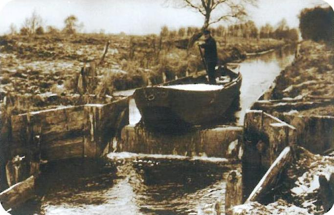 Teufelsmoor: Klappstau, a flap weir, invented by 1830 by Canal Steward (Kanalvogt) Müller from Wörpedorf (Wörpdorp). It is a leather flap vertically flexible and horizontally enforced by parallel wooden boards applicated on the downstream side and upheld on the upstream side by the headwater and on the downstream side by a guiding lateral edges bent upstream. So when a vessel approaches upstream its bow well sticks out above the upper edge of the concavely bent flap weir and by moving on its sloping underside gently presses down the flap, allowing the vessel to skim over it with the swashing downstream torrent. Moving upstream needs more manpower pushing the vessel's bow against the convexly bent flap weir to press it down against the headwater's counterpressure and then steering the barge against the downstream torrent. Mire Commissioner (Moorkommissar) Claus Witte (1796–1861; 1826-1861 in office) promoted Müller's idea, however, the new practical tool was very expensive, so that it took until 1840 that the first samples got installed in a watercourse at Eickedorf (Eekdorp), soon spreading to all navigable watercourses in the Teufelsmoor.